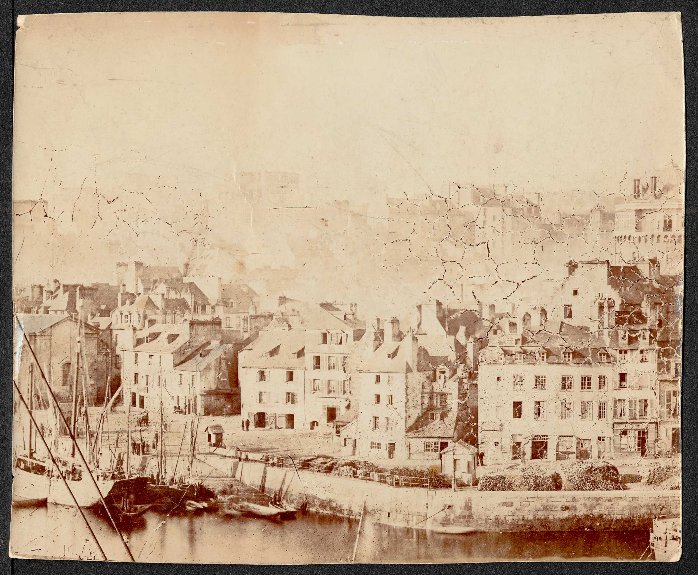 Dock of Recouvrance (Brest), 1870